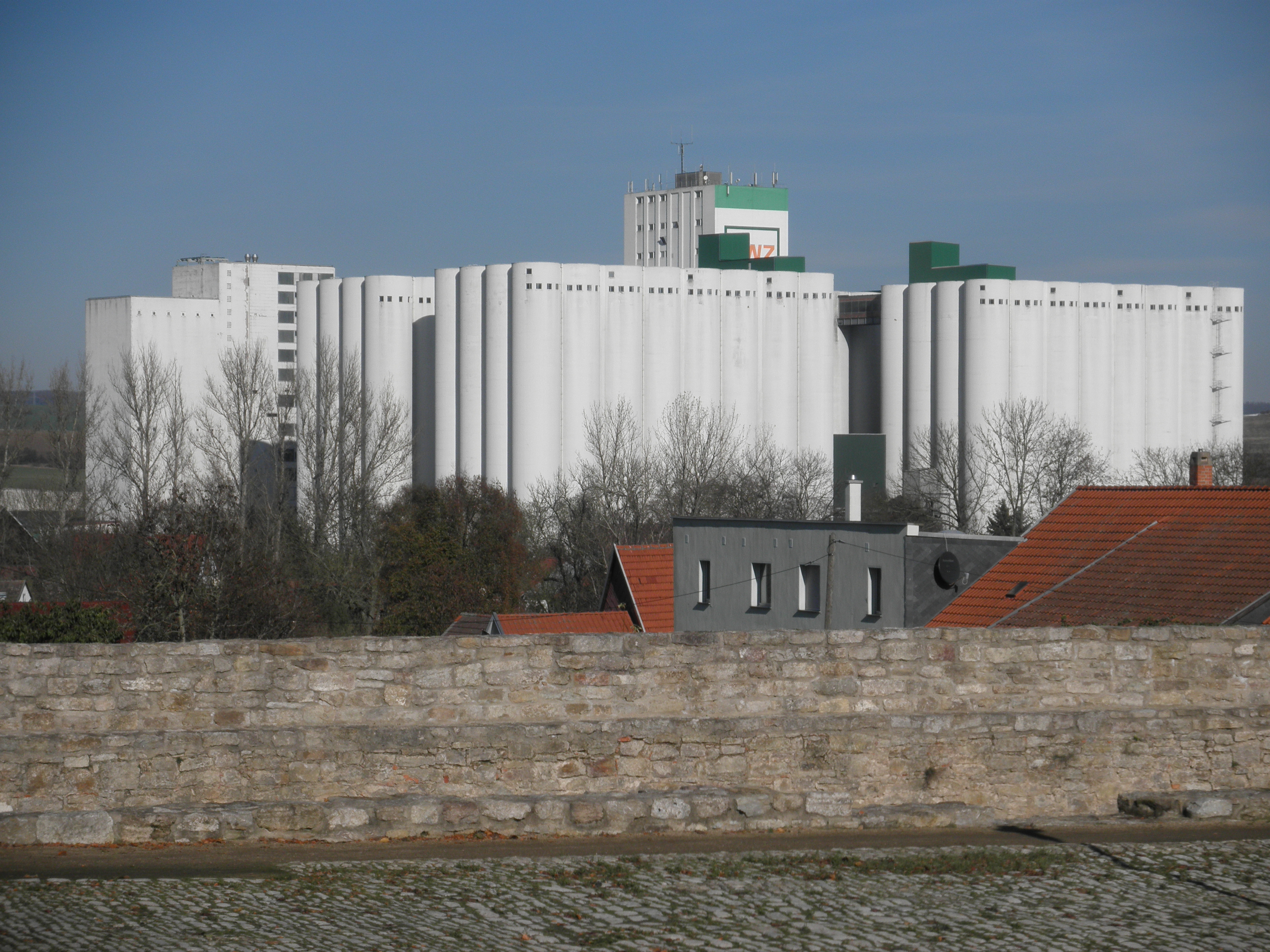 Silo in Ebeleben in Thuringia